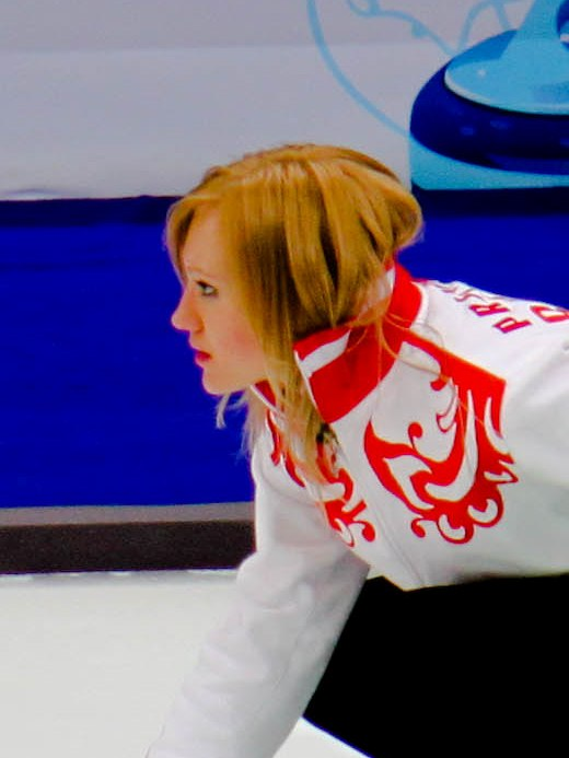 Liudmila Privivkova - curler from Russia.